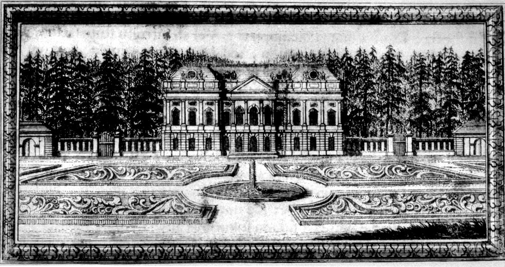 Lützenburg Palace, the later Charlottenburg Palace, as built by Andreas Schlüter in 1696. Engraving from Lorenz Beger, Thesaurus Brandenburgicus selectus, ca. 1700.